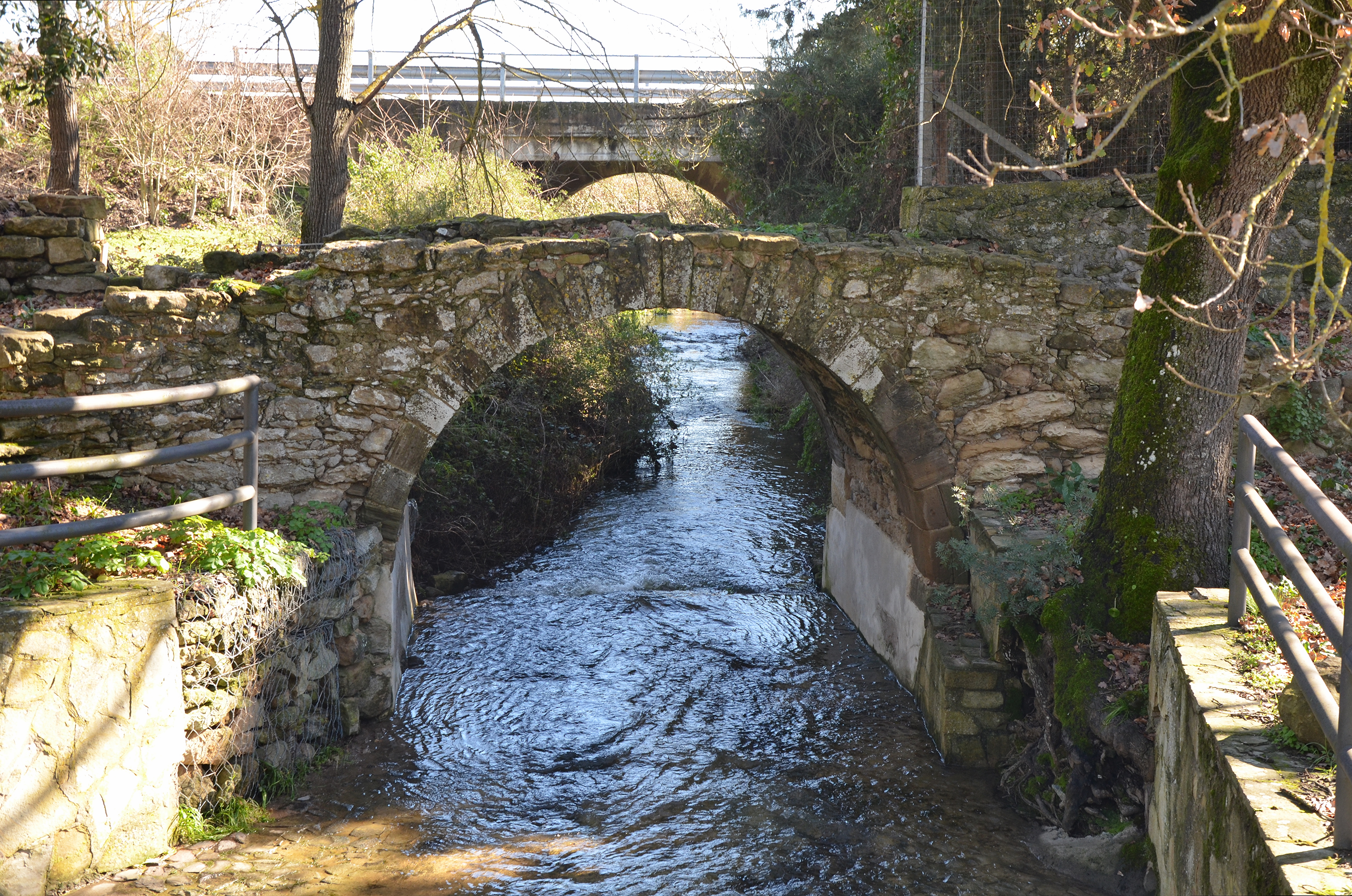 Single barrel vaulted Roman bridge, located on the ancient route that connected Uselis with Forum Traiani, Sardinia